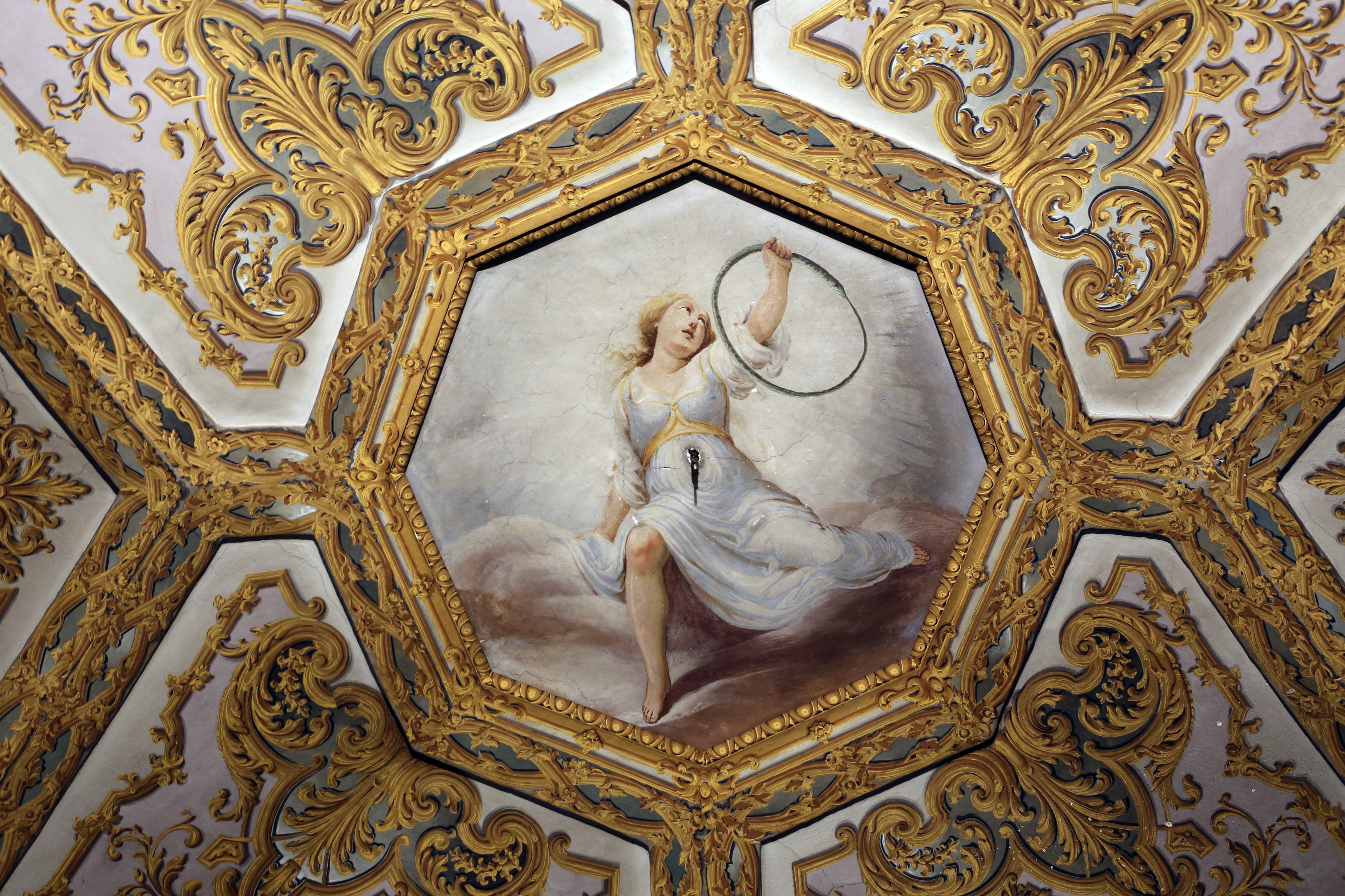 Palazzo di San Clemente - First floor